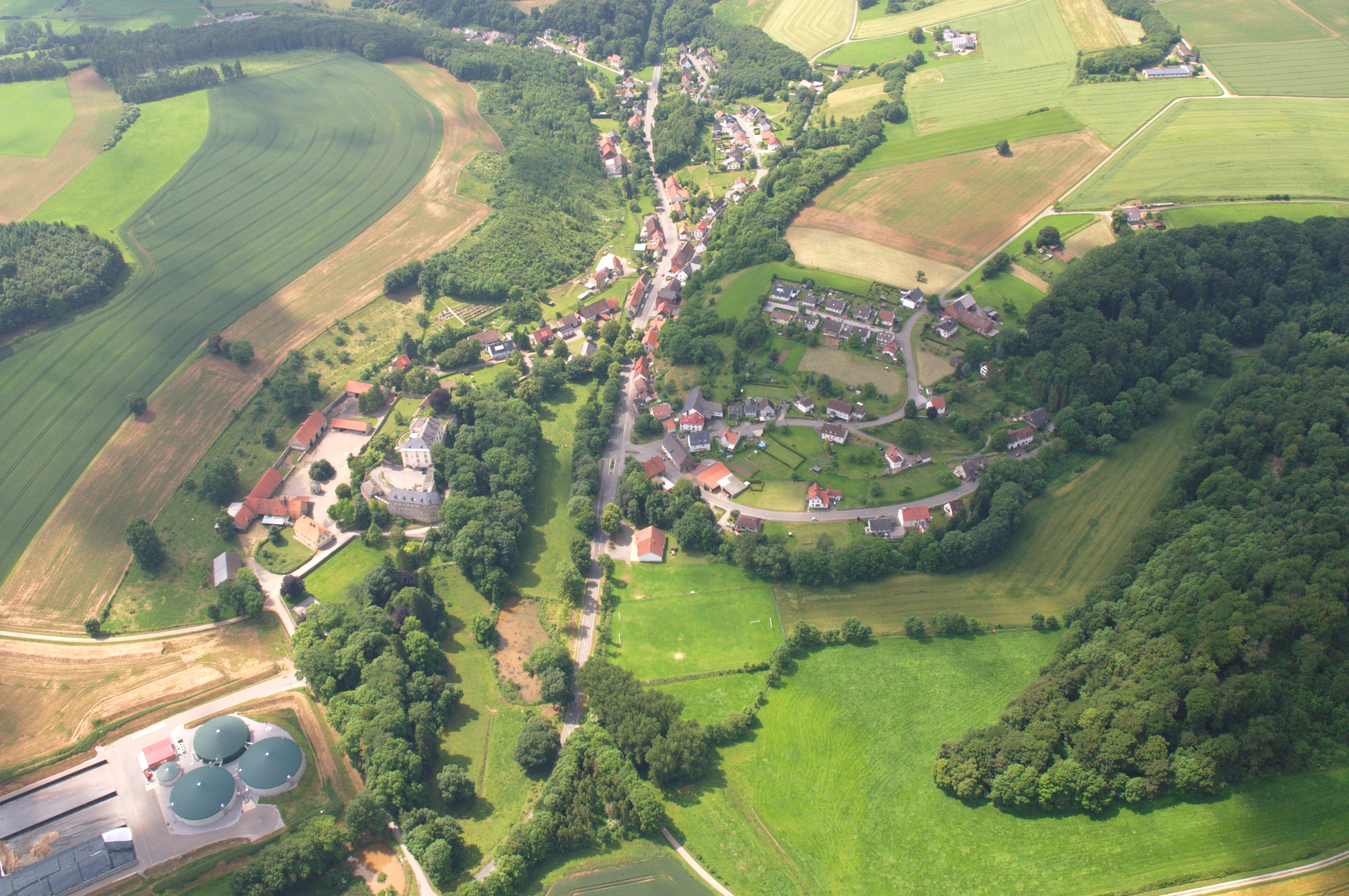 Fotofug Sauerland-Ost - Marsberg, Ortsteil Canstein The making of this document was supported by the Community-Budget of Wikimedia Germany.